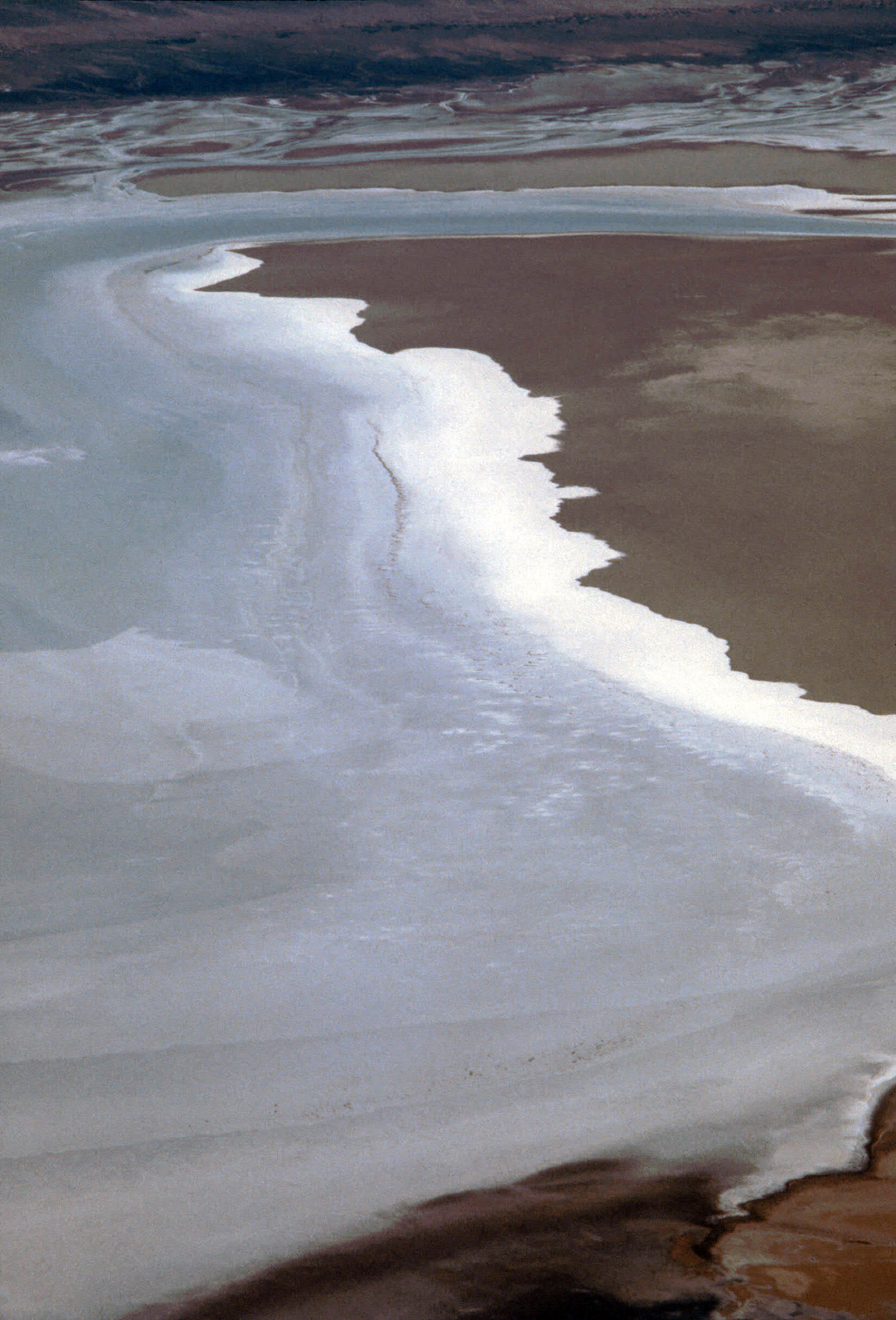 Death Valley,Dante's View,Salt shoreline closeup vertical